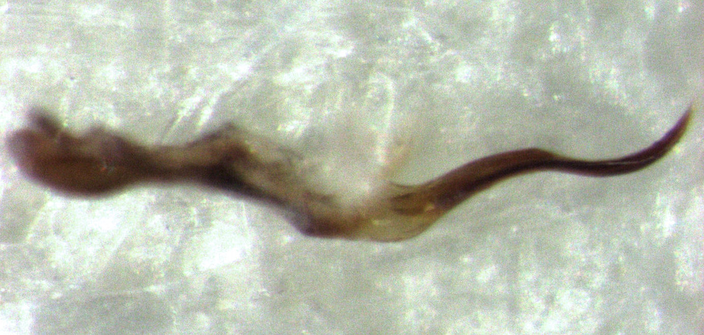 Maiestas vetus (aedeagus, left lateral view), compare with fig. 20f in Knight, W.J. 1975: Deltocephalinae of New Zealand (Homoptera: Cicadellidae). New Zealand journal of zoology, 2(2): 169-208. [p. 204]